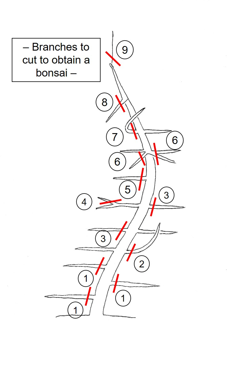 Branches to cut to obtain a bonsai. Branches too low on the trunk Branches intersecting others Opposite branches. Cut alternatively on the right and on the left Branches in Y. Preserve branches to the bottom Branches inside a curve of the trunk Branches with shape of wagon wheel Branches intersecting the trunk Branches to the bottom Cut the top. Try to cut just above a bud